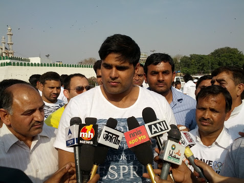 Save Wrestling Initiative by Naveen Singh Suhag in New Delhi